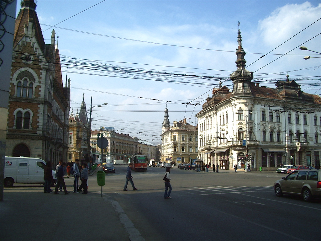 and cables for the electric busses or trams or whatever they call them.